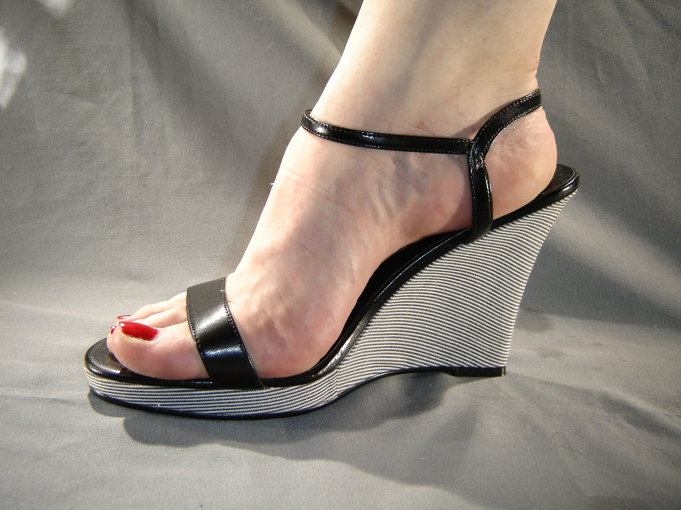 Wedge Heel